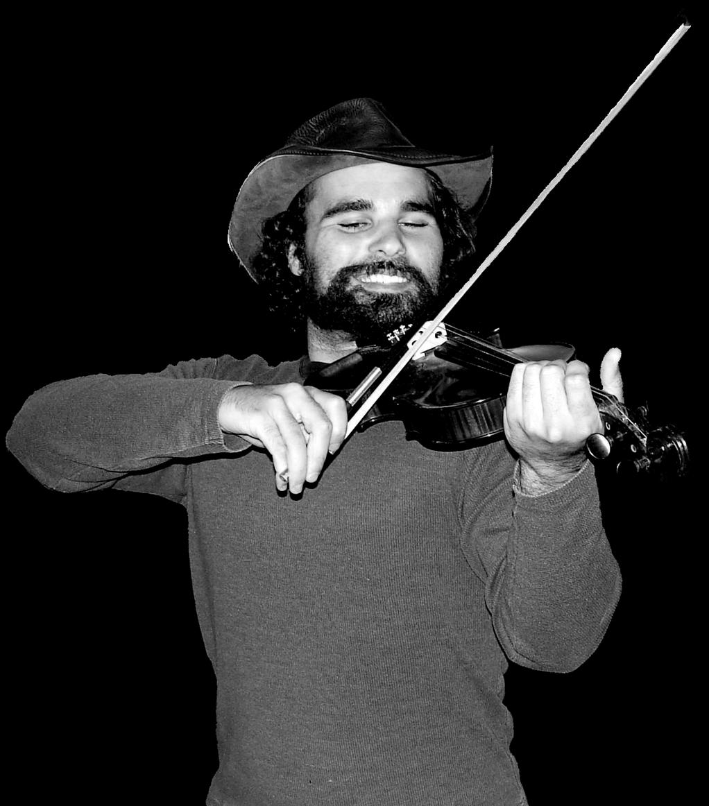 photo taken in Abingdon, VA